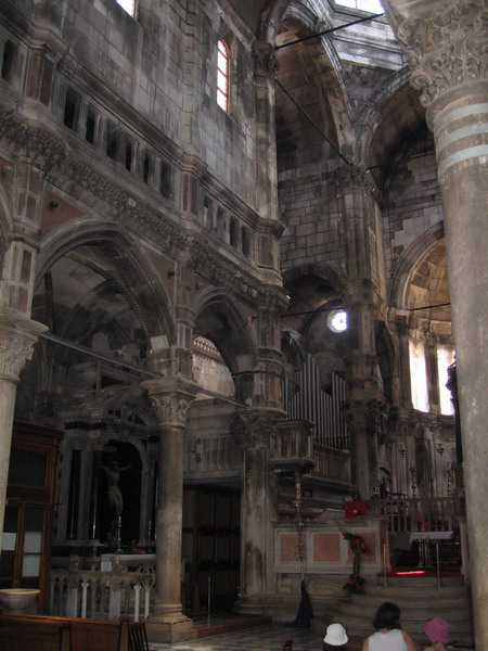 Inside Saint Jacob's cathedral